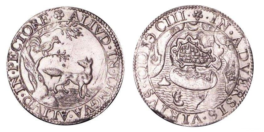 Moneda conmemorativa del sitio de Ostende Counter commemorating the siege of Ostend, 1603. A fox looking at a cock perched in a tree. Legend: 'ALIVD . IN . LINGUA . ALIVD . IN . PECTORE'. Plan of Ostend with ships. Legend: 'IN . ADVERSIS . VIRTVS . CIC IC CIII'.